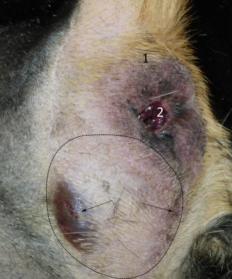 perineal hernia in a dog. 1 tai root, 2 anus, Arrows: bluish skin changes